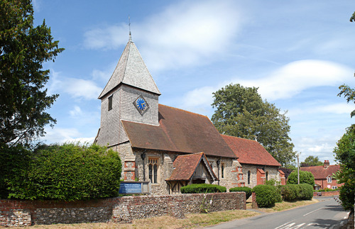 St Thomas of Canterbury parish church, East Clandon, Surrey, seen from the south